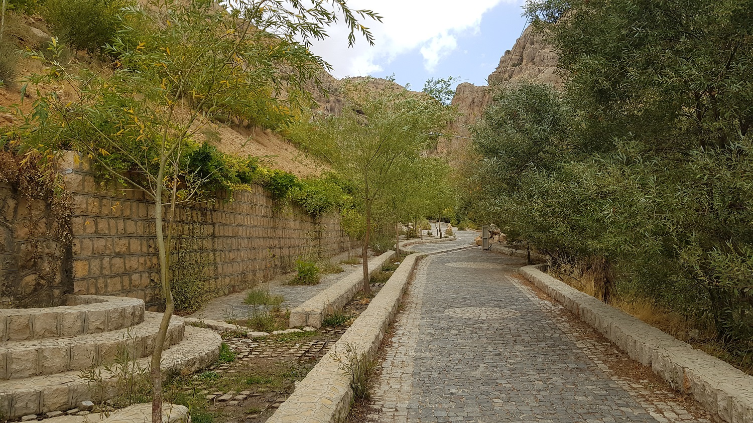 Chellegah-Sepidan-Fars-Iran